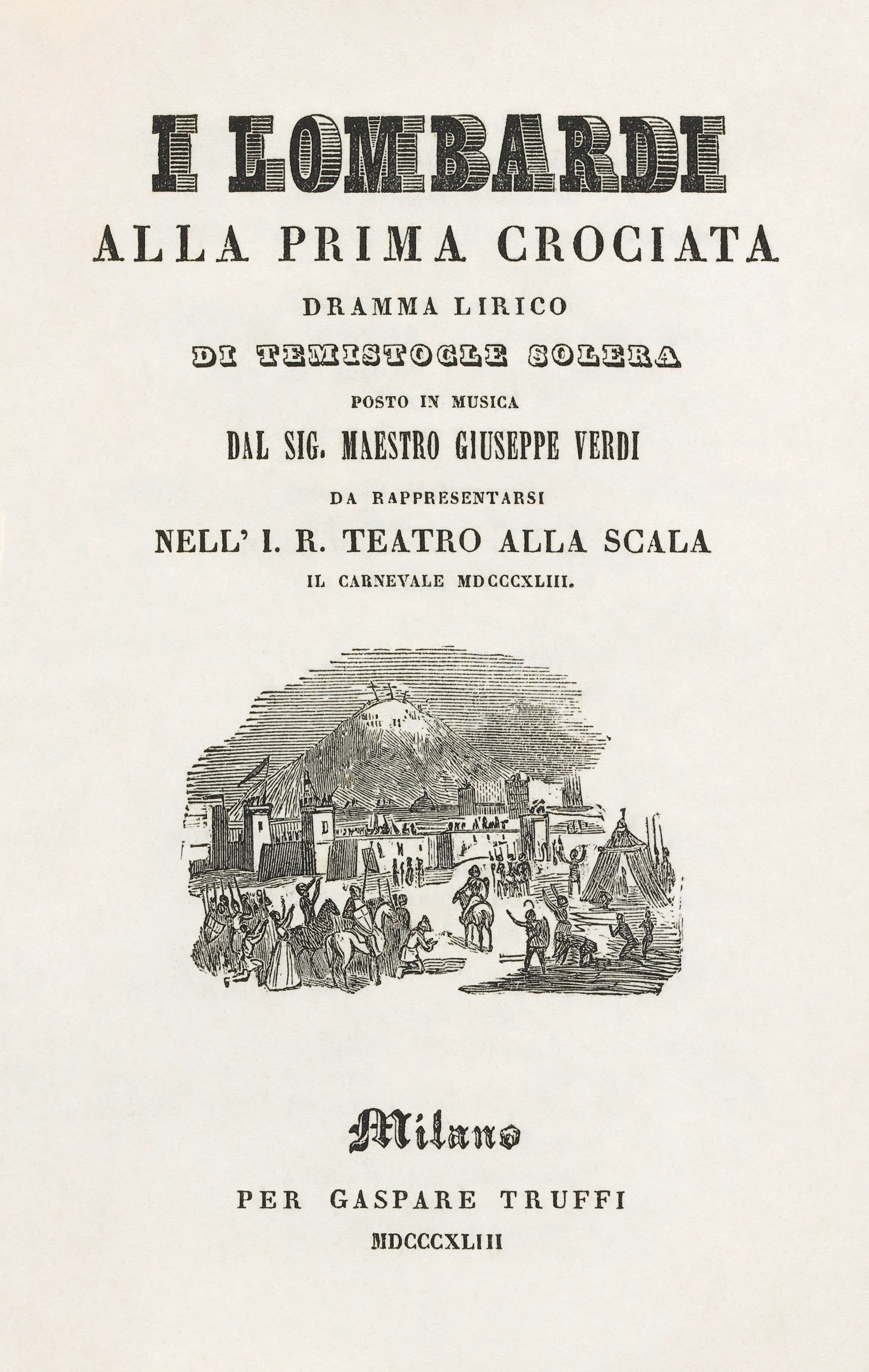 Title page of an 1843 libretto of Giuseppe Verdi's I Lombardi alla prima crociata. Very early edition, possibly first edition, dating to the time of the opera's première.